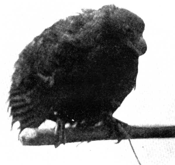 Photograph of live Tooth-billed Pigeon by Dr. Augustin Kramer in 1901